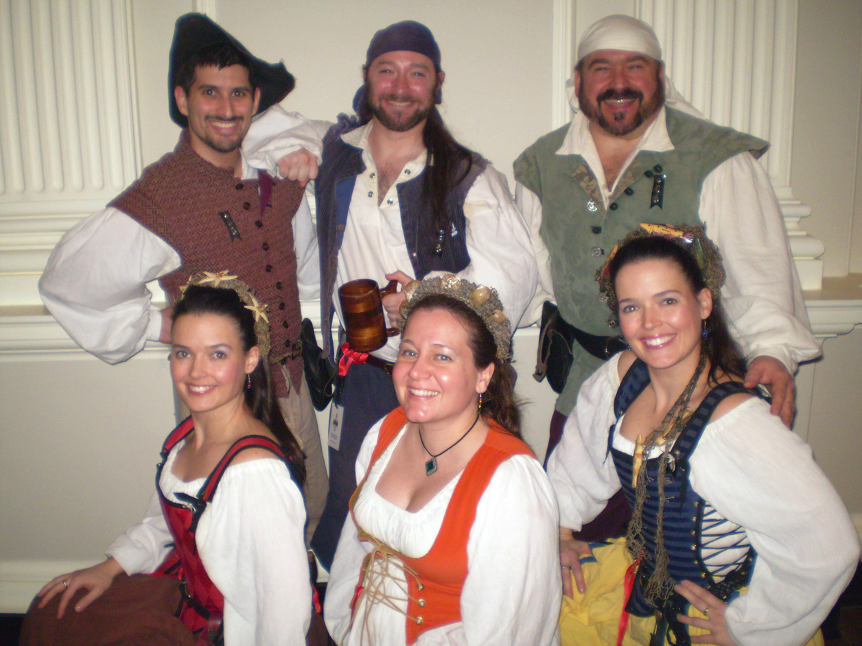 Singing group "Bounding Main" photographed at Chicago Maritime Festival. Uploader personally photographed this group at the Chicago Maritime Festival, held at the Chicago History Museum in 2009.